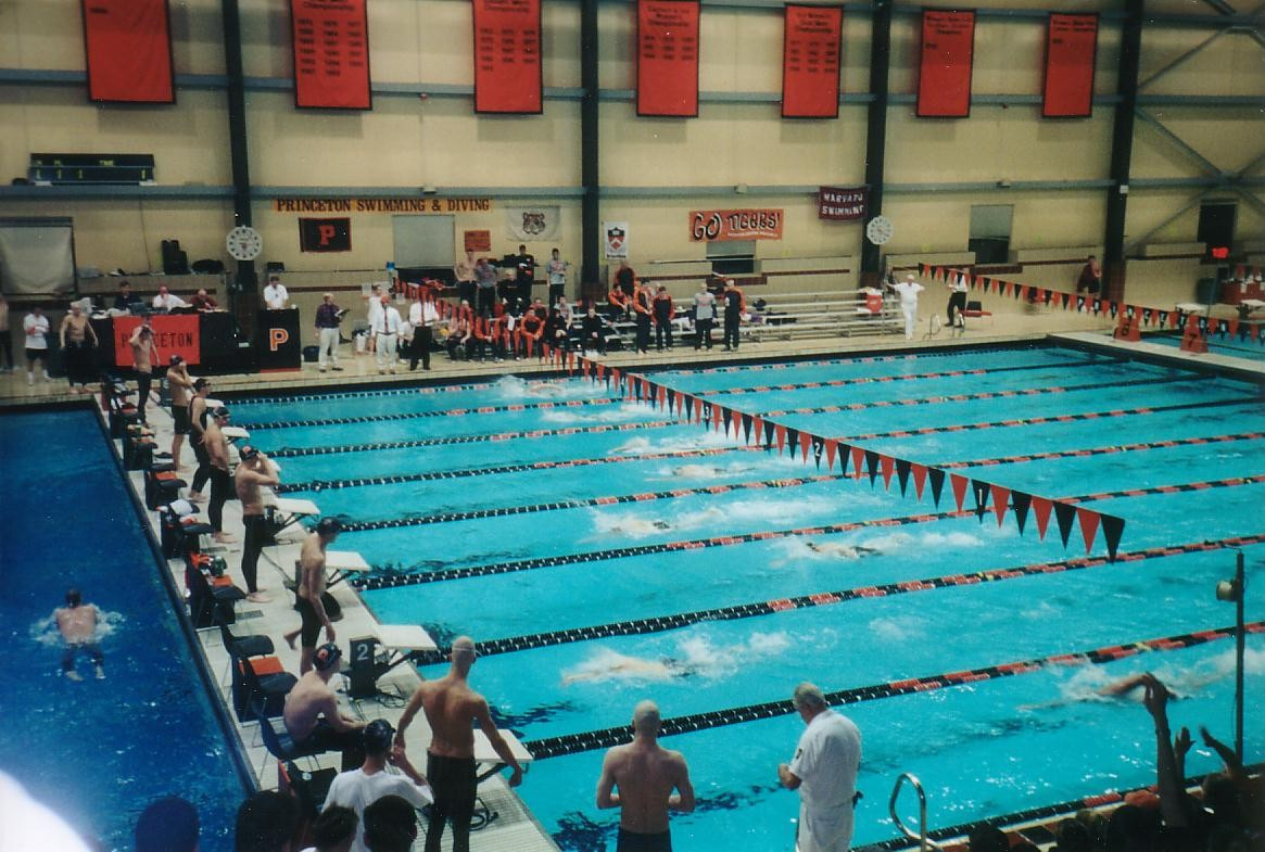 Denunzio pool at Princeton University, Princeton, New Jersey